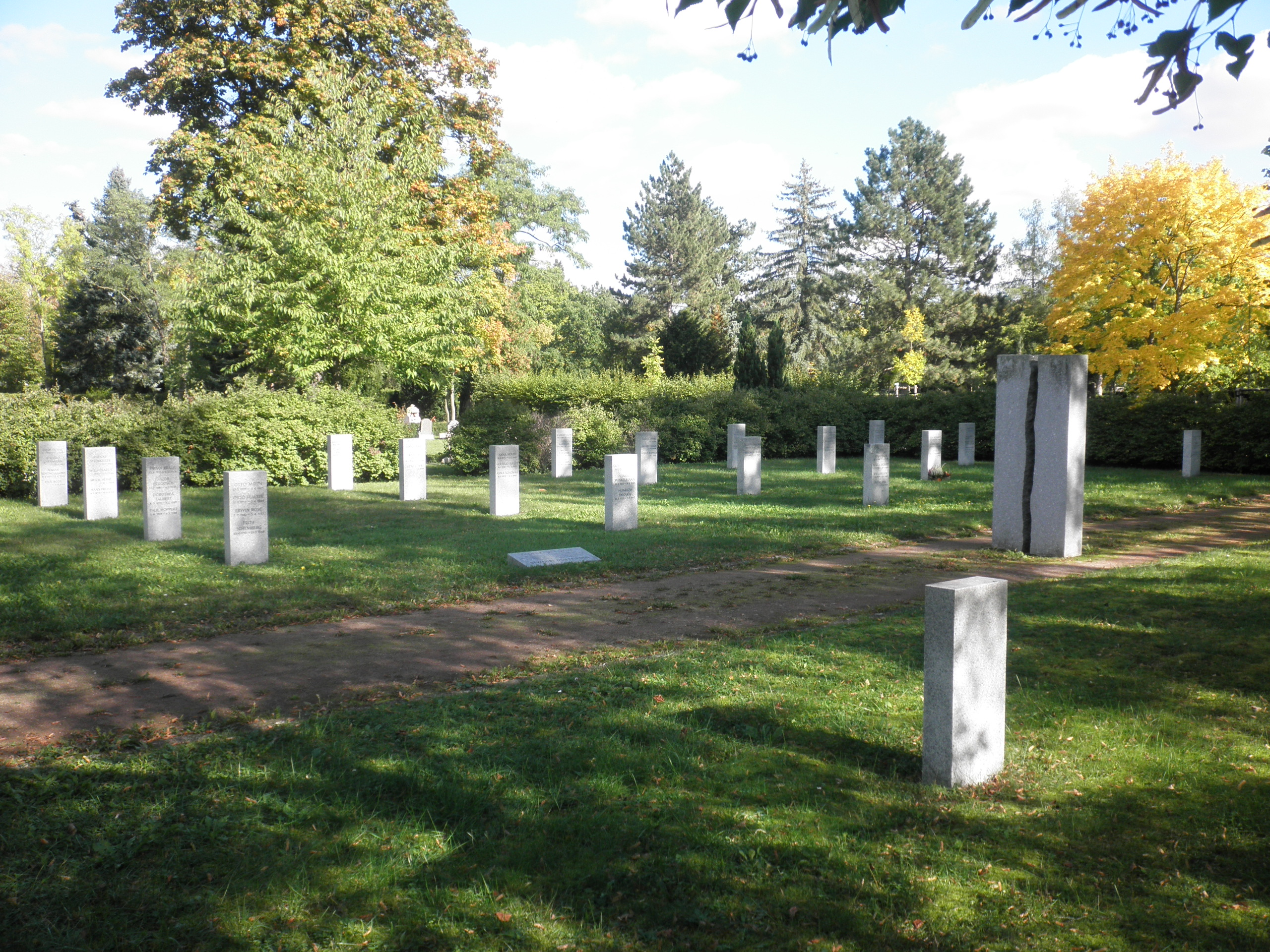 German war victims at cemetery in Arnstadt in Thuringia